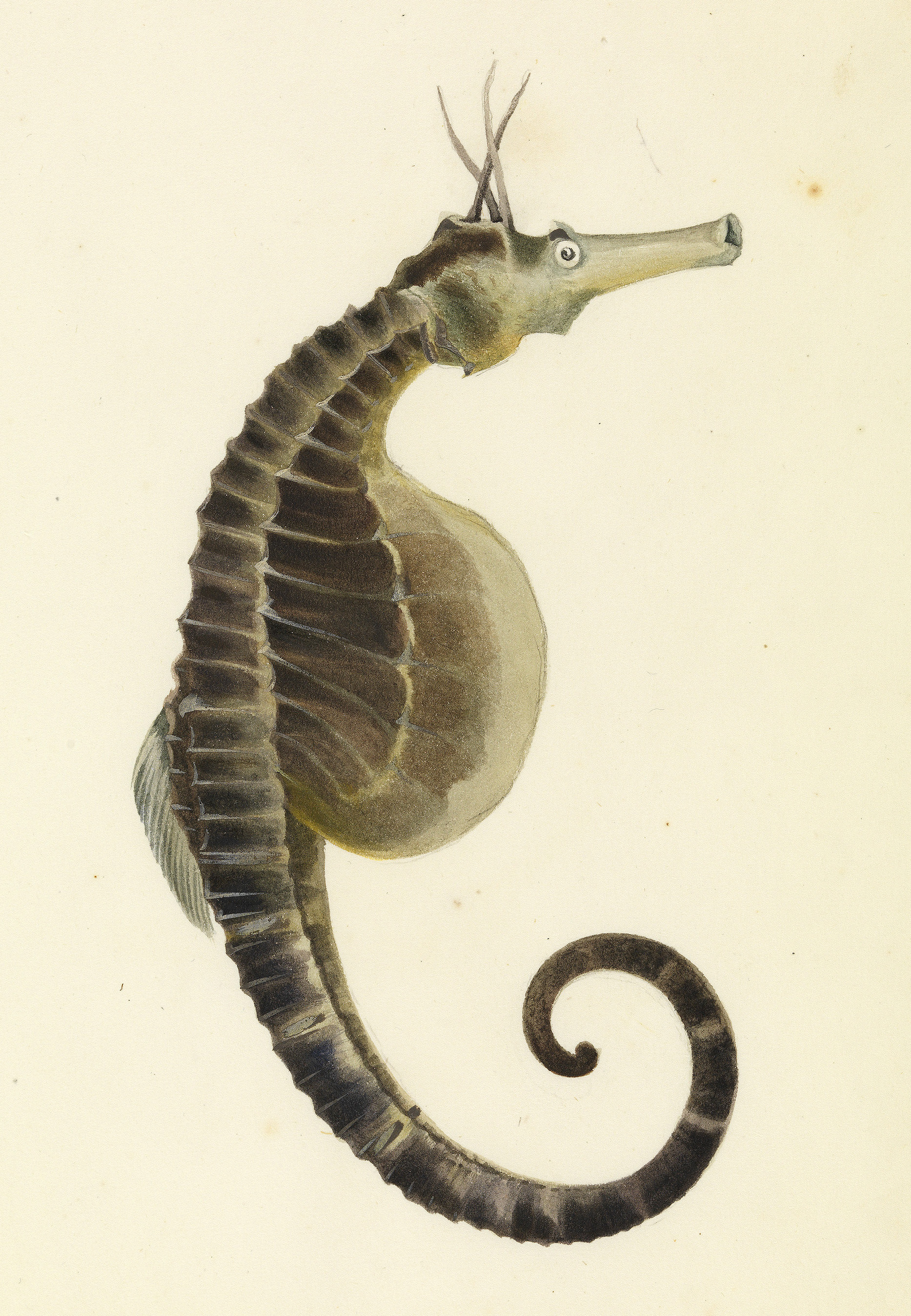 Sketch 18. (Pot bellied) seahorse (Hippocampus abdominalis) watercolour on paper sketch from the Sketchbook of fishes by Van Diemonian (Tasmanian) artist and convict William Buelow Gould (1801 - 1853).Produced c1832 as part of a thirty-six image still life sketchbook of fishes while Gould was a convict on Sarah Island at the Macquarie Harbour Penal Station. Probably done for Dr William De Little.Actual size 185 x 227 mm. This version is cropped to the main image.